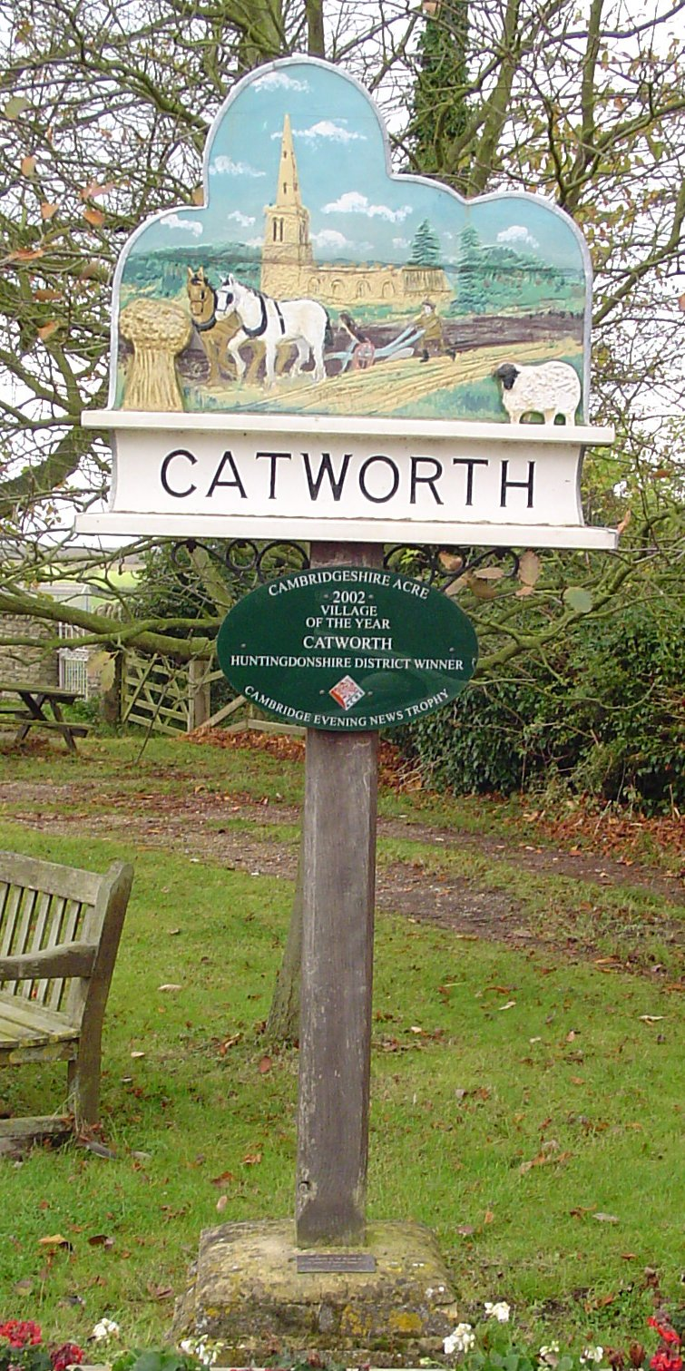 Signpost in Catworth